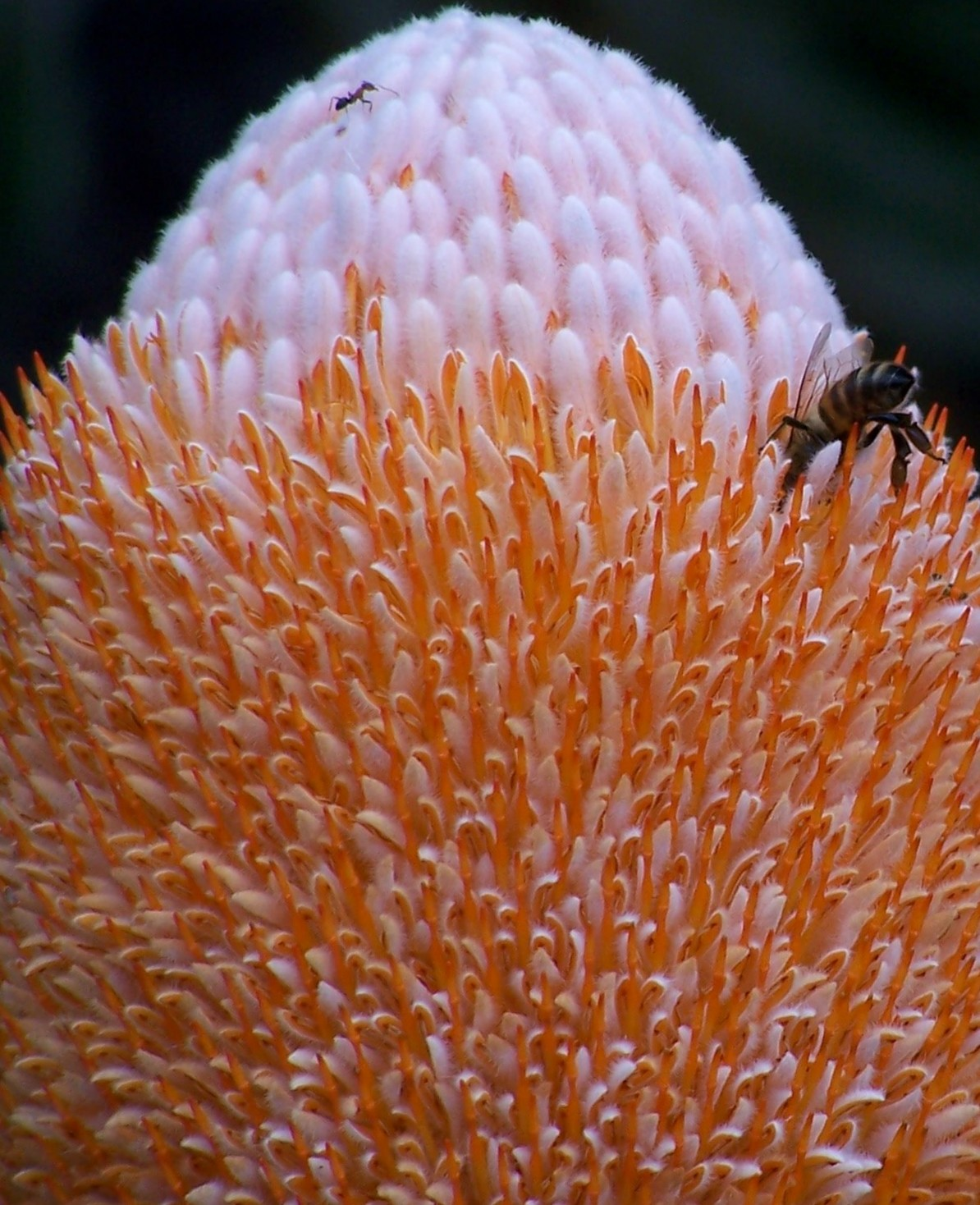 Banksia prionotes taken at Reabold Hill in Bold Park Floreat Western Australia